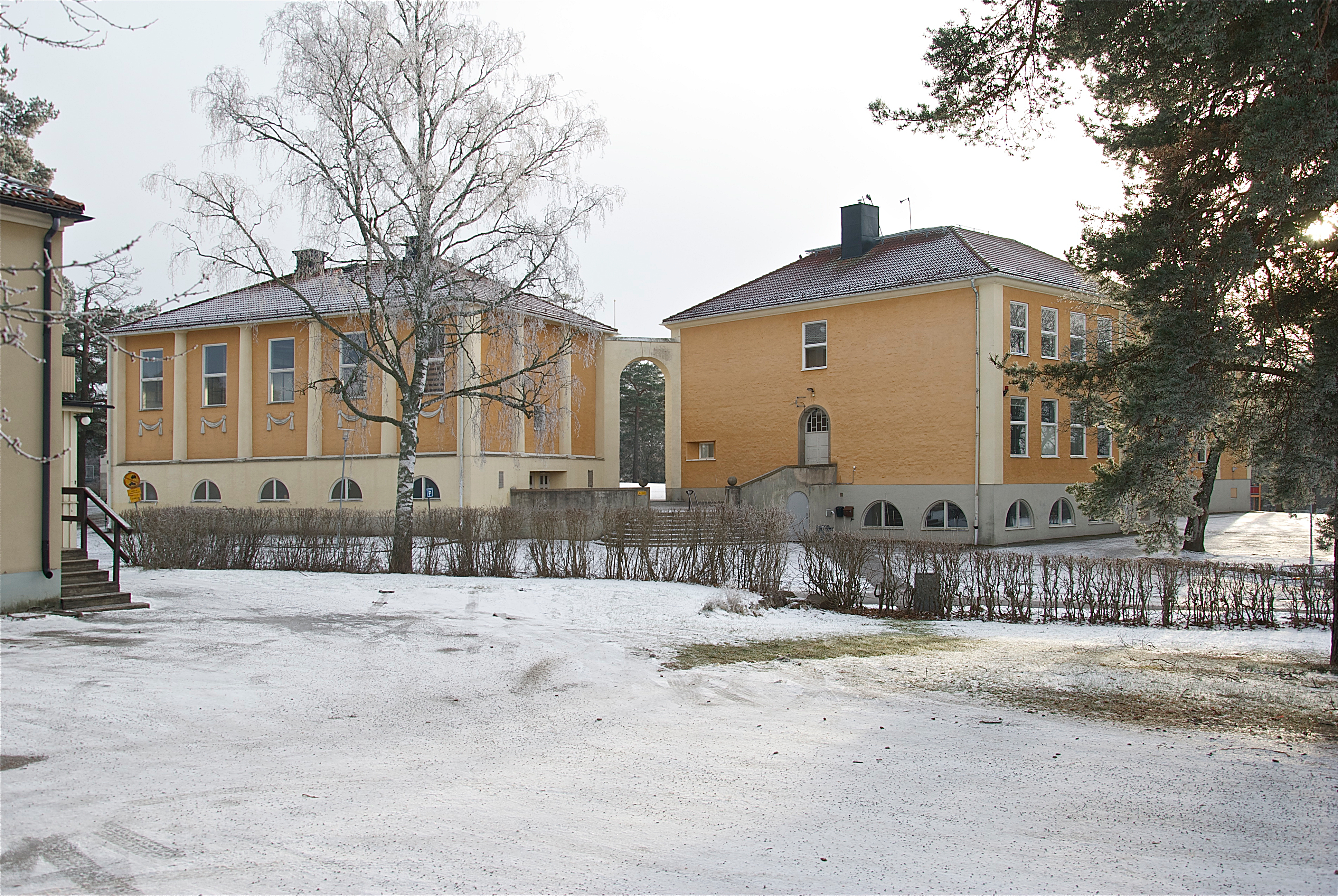 Hallsta school, January 2012